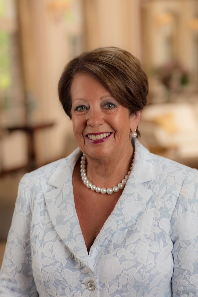 Lady Lynne Cosgrove photo (2014 to 2019)